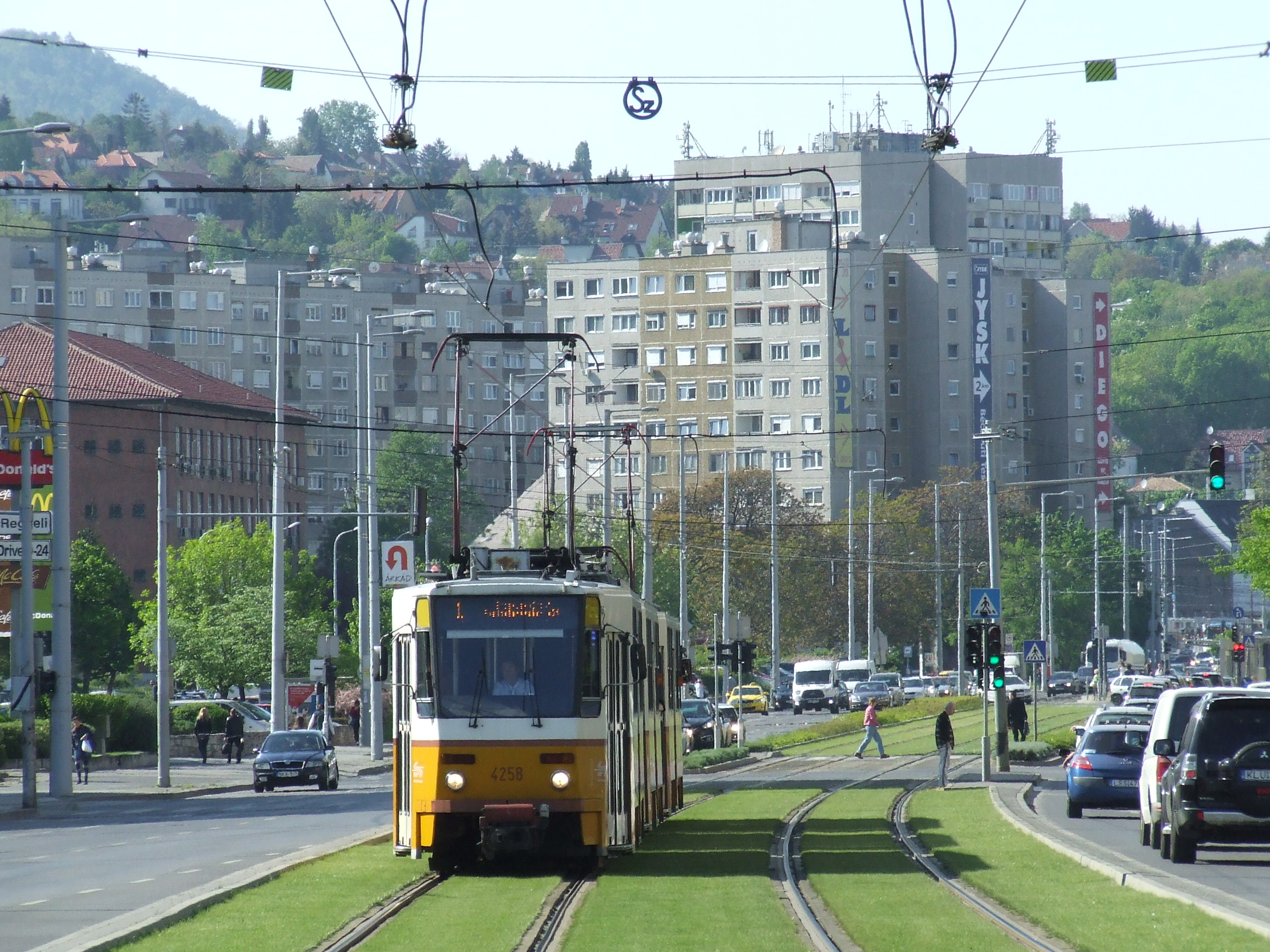 Budapest, Tatra T5C5